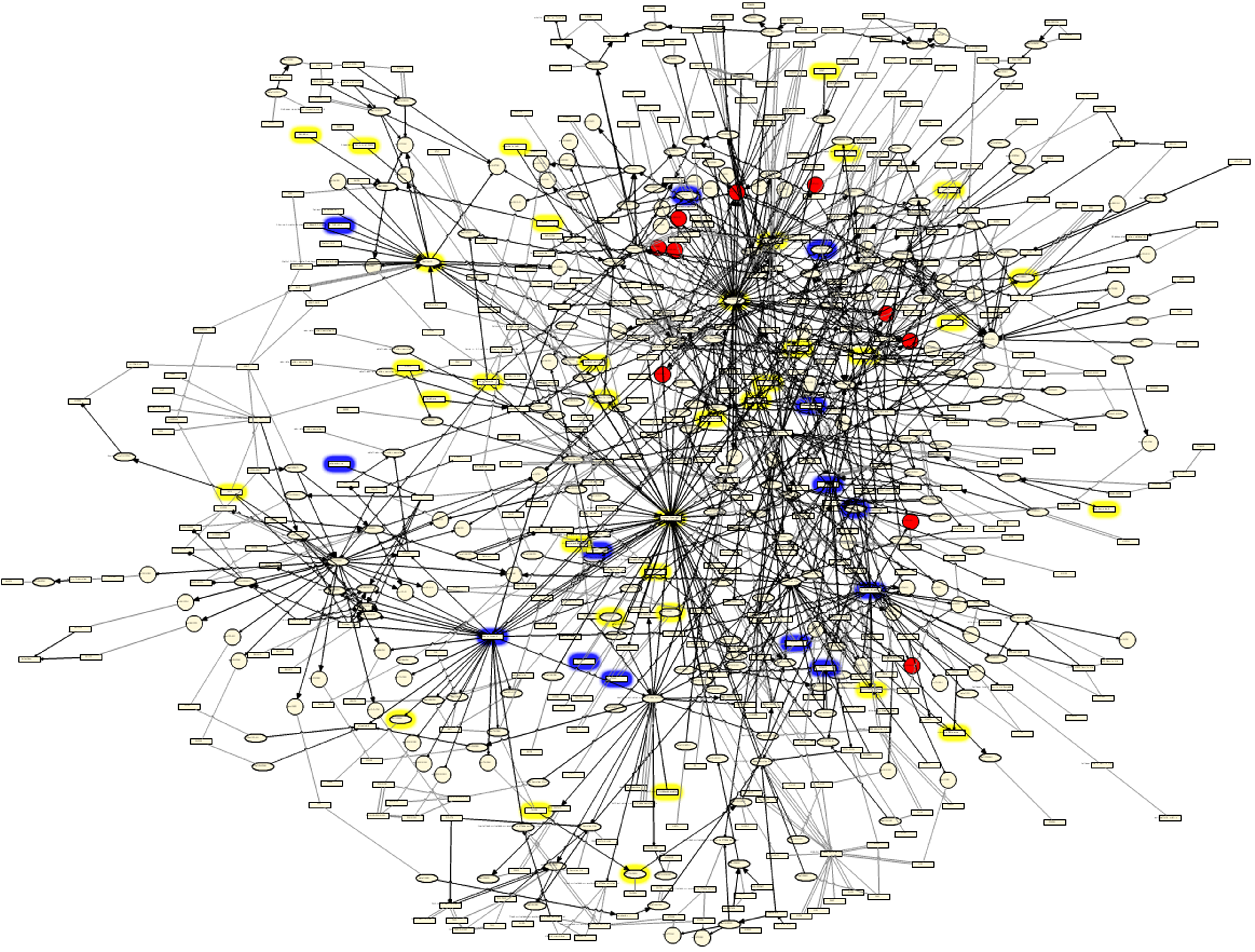 A computable cellular stress network model for non-diseased pulmonary and cardiovascular tissue